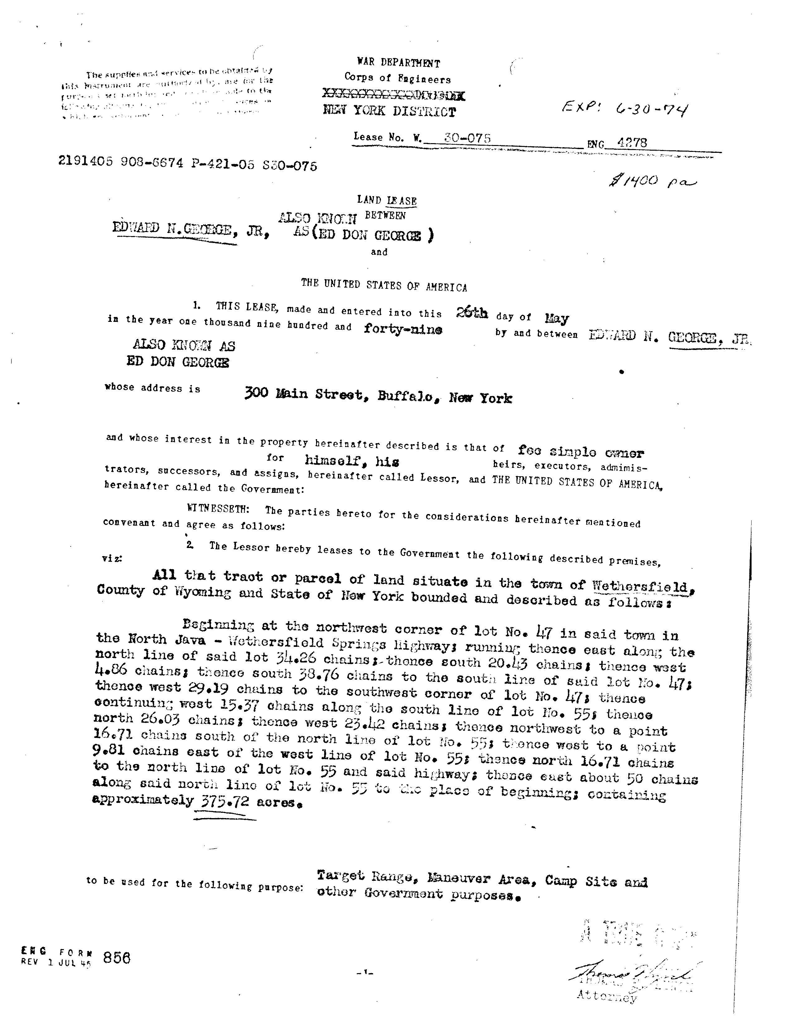 This document was a lease between Ed Don George (Edward N. George Jr.) and the U.S. Army Corps of Engineers New York District office.